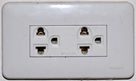 Photo of Thai electrical outlet taken by Peebidj (the initial uploader) modified by plugwash to alter amount of background.